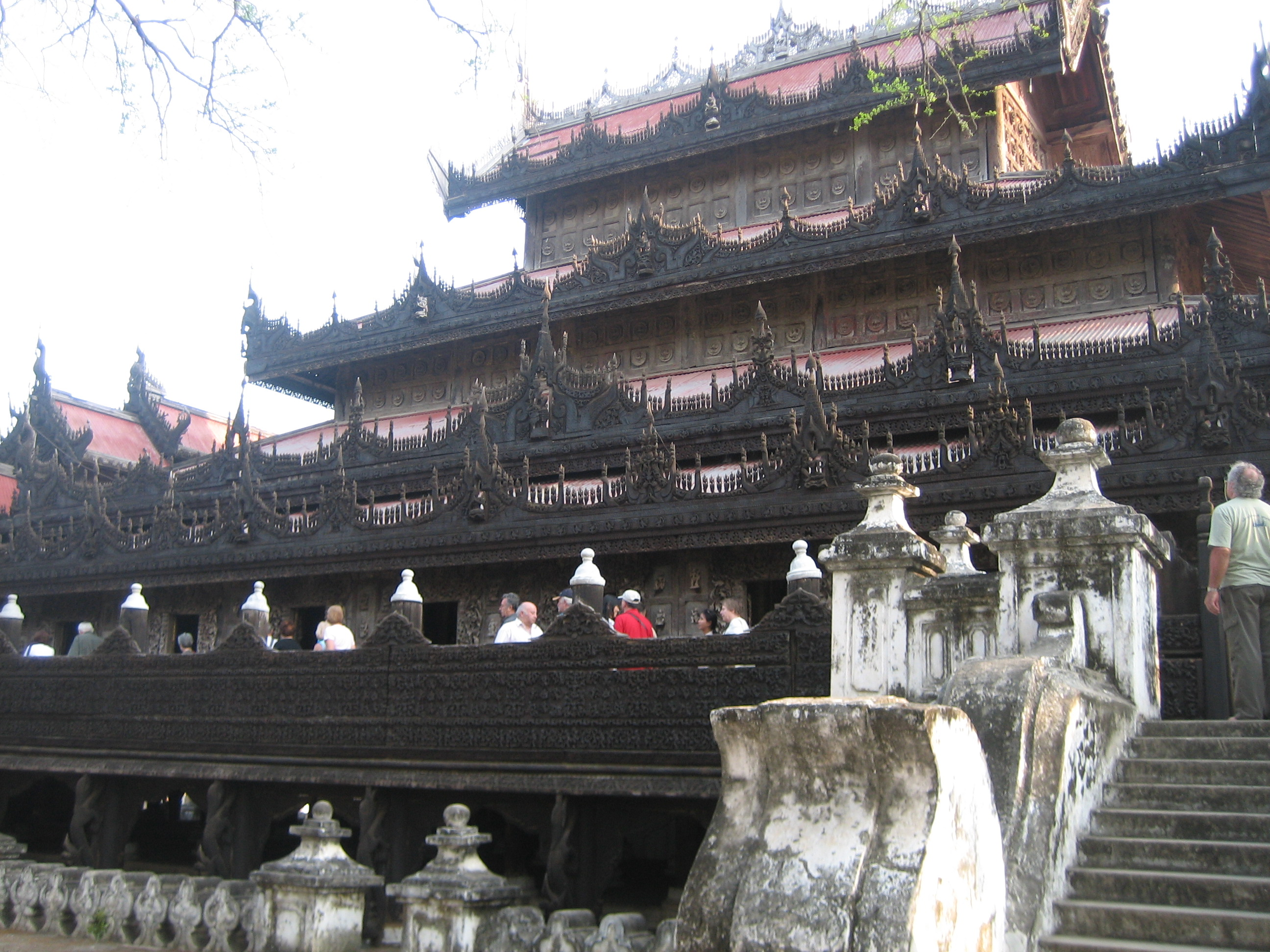 Shwenandaw Monastery in Mandalay